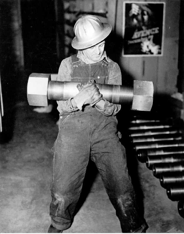 A man photographed carrying a 193-pound nut and bolt, one of 16 used to join sections of the generator shaft of a 75,000 kW generator Grand Coulee Dam, 1942.